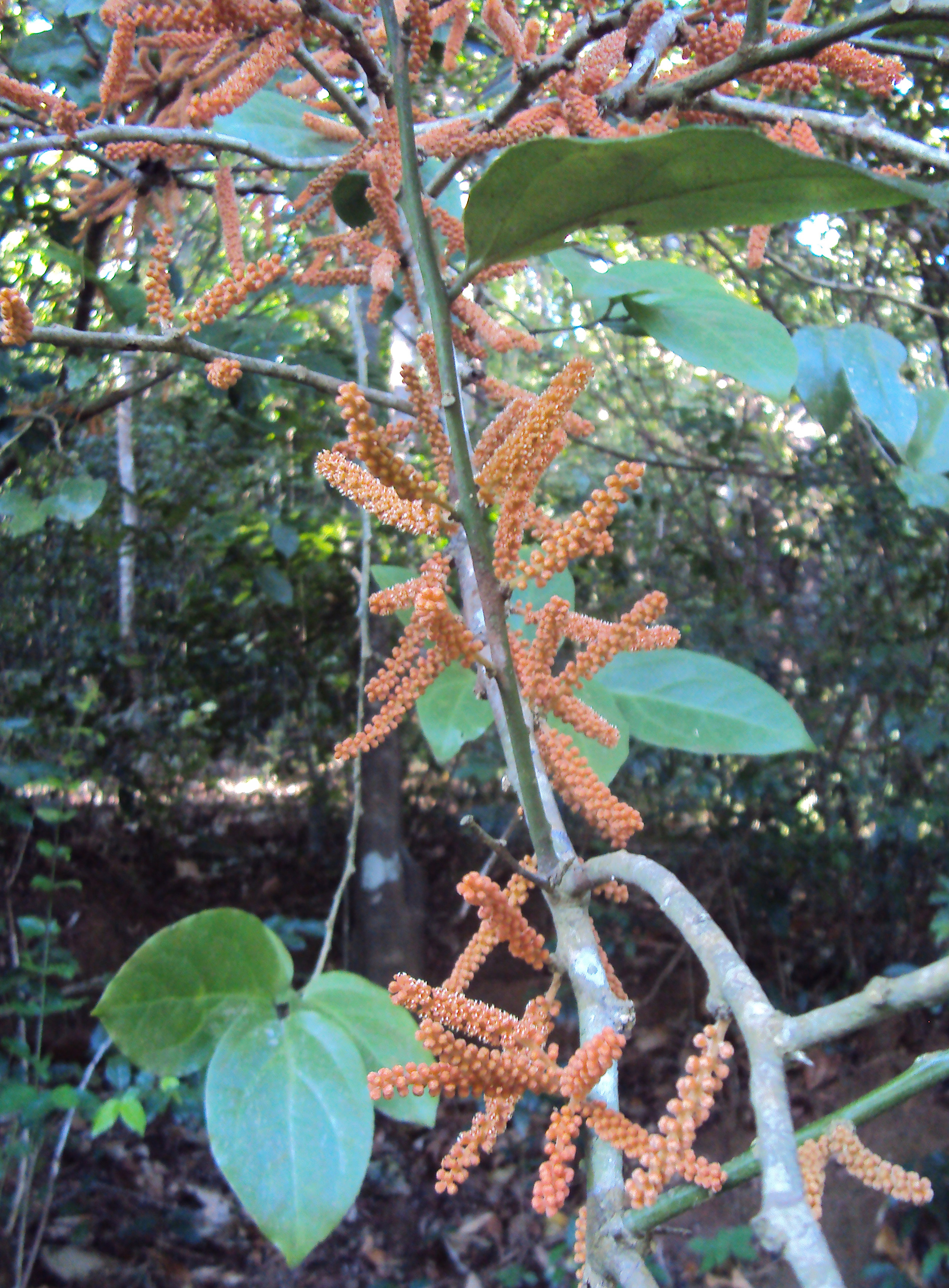 Scleropyrum pentandrum or Scleropyrum wallichianum. Synonyms include Antidesma parasiticum Dillwyn Bridelia horrida Dillwyn Heydia horrida Dennst. Myrobalanus indica Buch.-Ham. ex Steud. Pothos pentandrus Dennst. Pyrularia ceylanica A.DC. Pyrularia wallichiana A.DC. Scleropyrum wallichianum Arn. Terminalia horrida Steud.